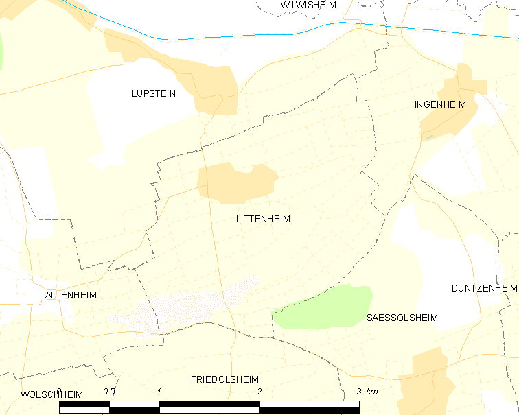 Map of French municipality